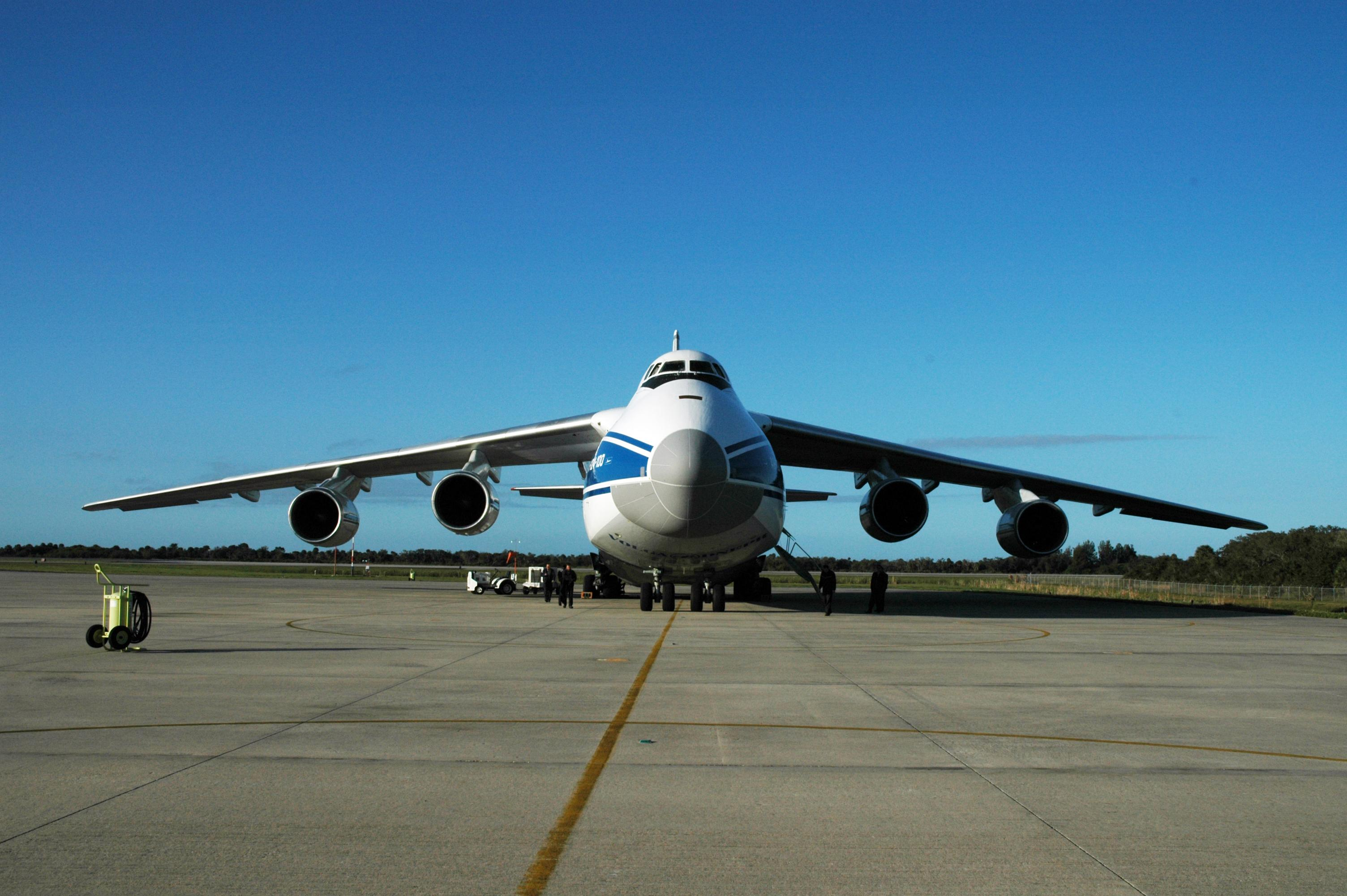 KENNEDY SPACE CENTER, FLA. -- At the KSC Shuttle Landing Facility, the Antonov 124 aircraft delivers its cargo, the remote manipulator system for the Japanese Experiment Module. The JEM, named "Kibo" (Hope), is Japan's primary contribution to the International Space Station. It will enhance the unique research capabilities of the orbiting complex by providing an additional environment for astronauts to conduct science experiments. The Japanese Aerospace Exploration Agency developed the laboratory. Both the JEM and RMS are targeted for mission STS-124, to launch in early 2008.